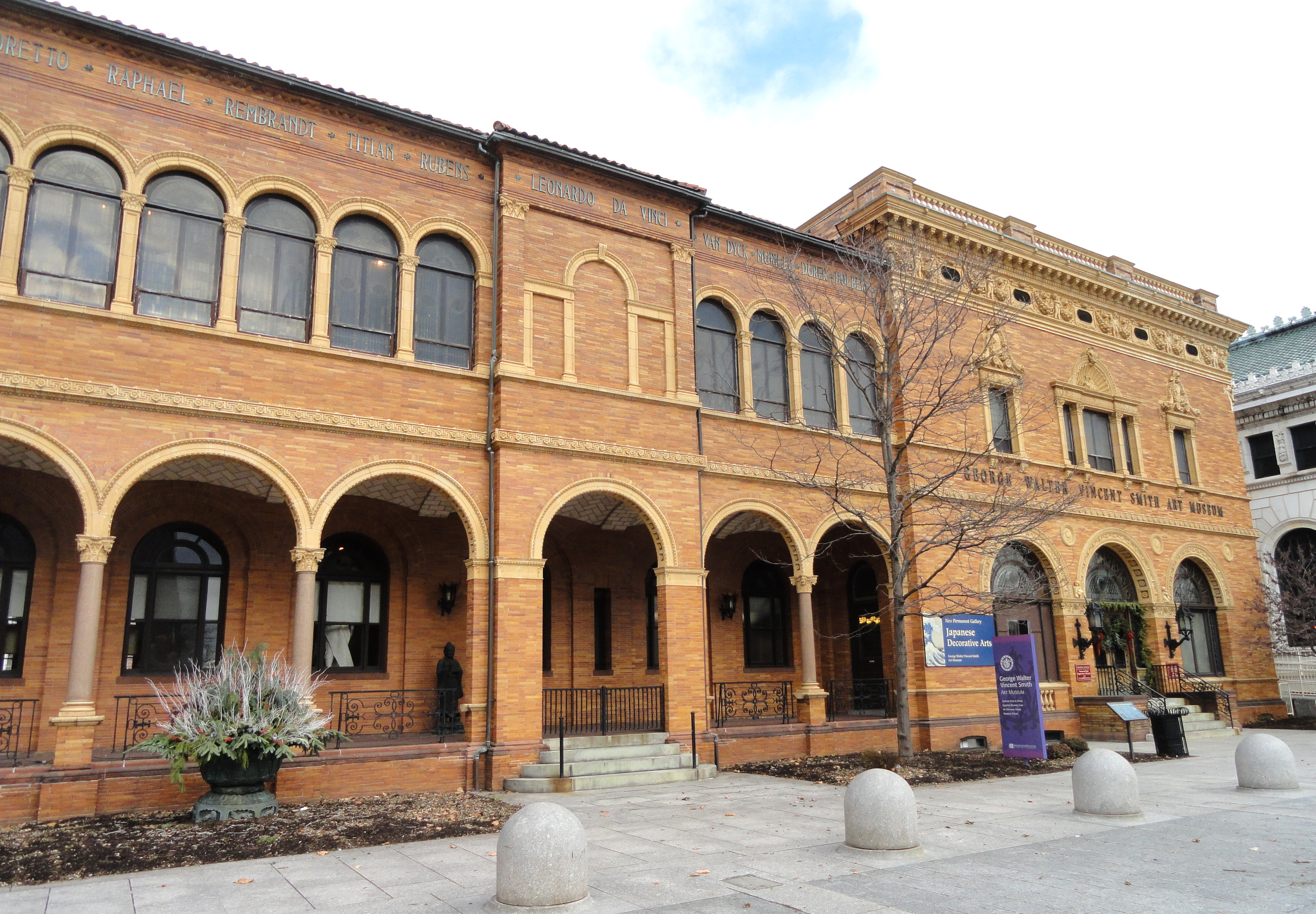 George Walter Vincent Smith Art Museum, 21 Edwards Street, Springfield, Massachusetts, USA. The museum permitted photography without restriction.